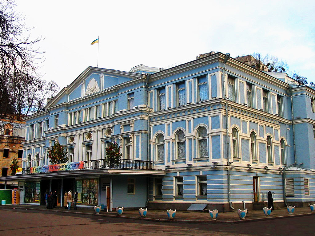 The Ivan Franko Theater of Ukrainian Drama in Kyiv, Ukraine.